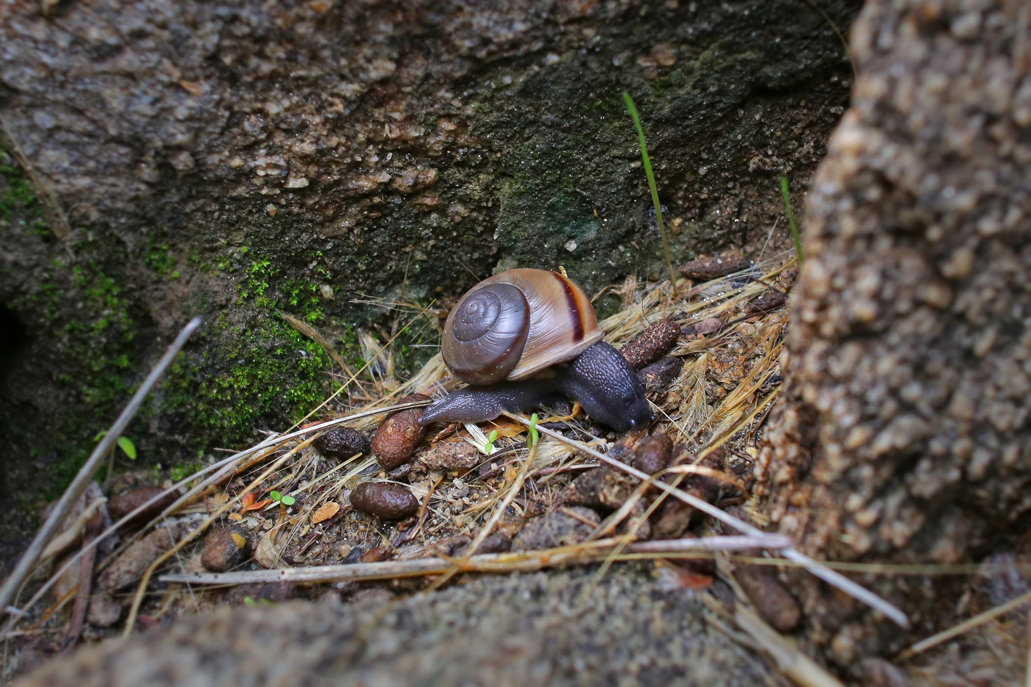 A Morongo Desert snail I photographed in Chino Canyon, north of Palm Springs CA., after a rain storm.